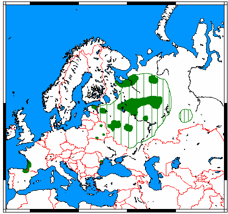 Range map for West European Mink (Mustela lutreola), made by me with help of Map depending on the range map at IUCN red list.